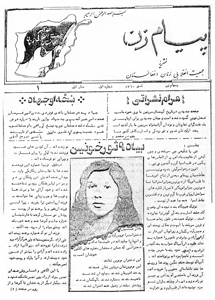 Front page of the fist issue of Payam-e-Zan (woman's message) a publication of the Revolutionary Association of the Women of Afghanistan (RAWA). Publication date 1982 - Kabul, Afghanistan.